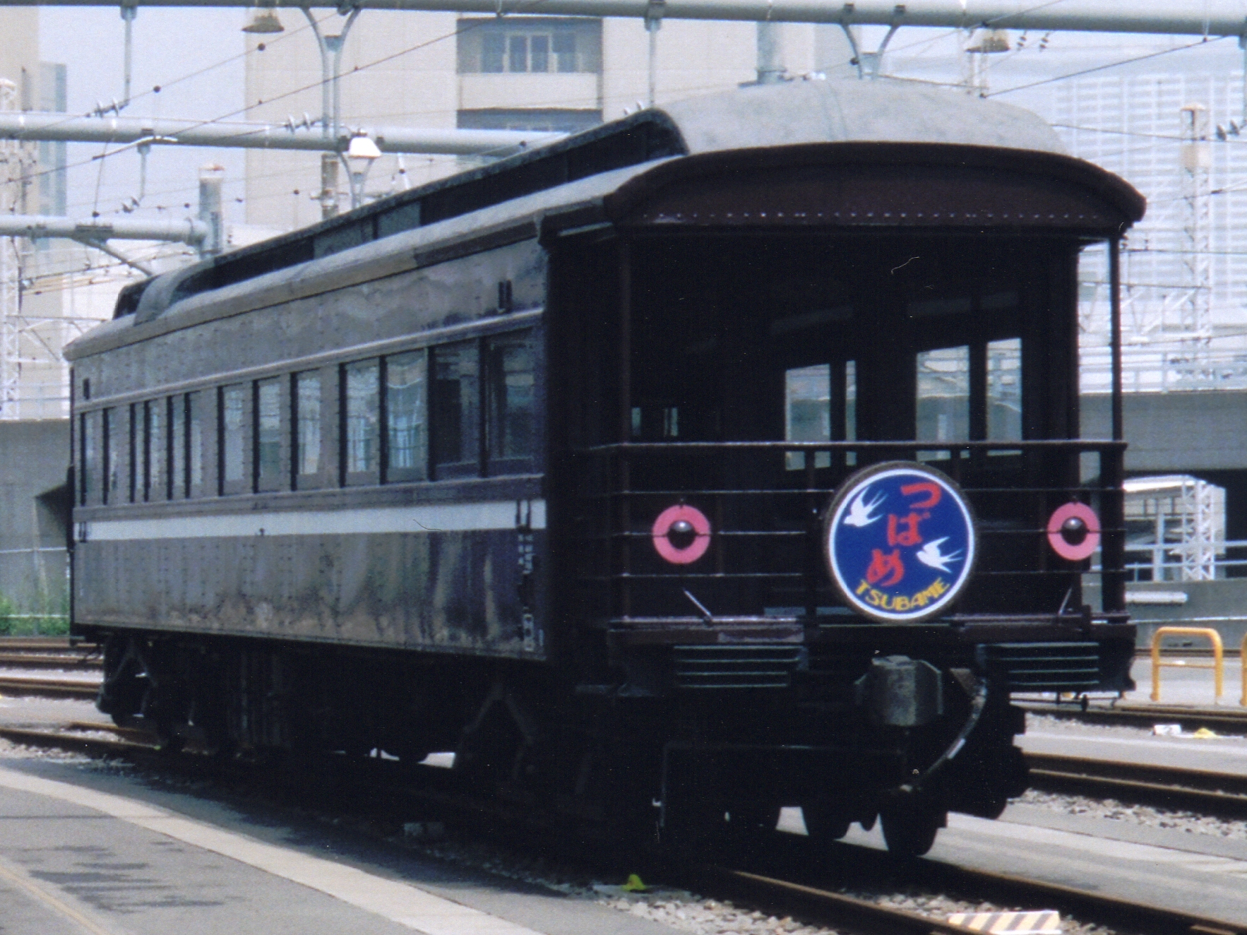 Japanese National Railway, Passenger car type Maite-39 at Oi railcar repair shop